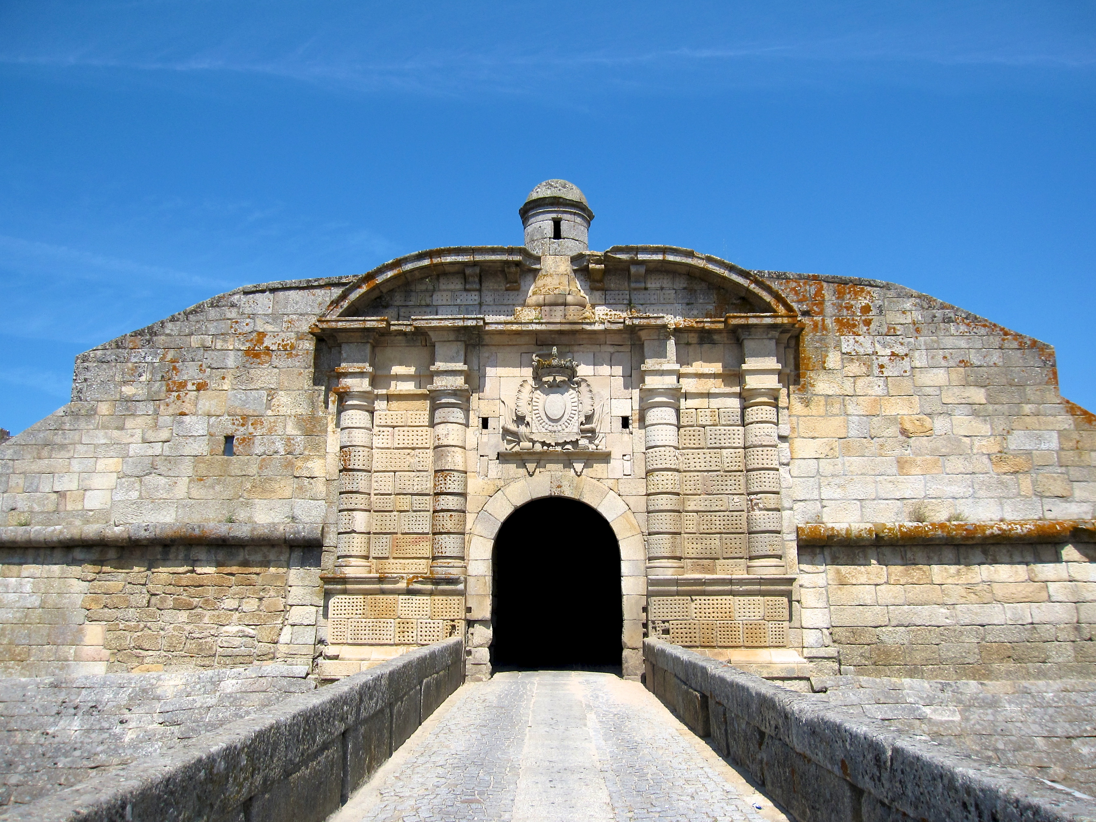 This file was uploaded for Wiki Loves Monuments in Portugal with the unique identifier 70693.